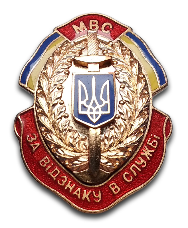 Award of the Ministry of Internal Affairs of Ukraine - Award "For achievment" (1995)